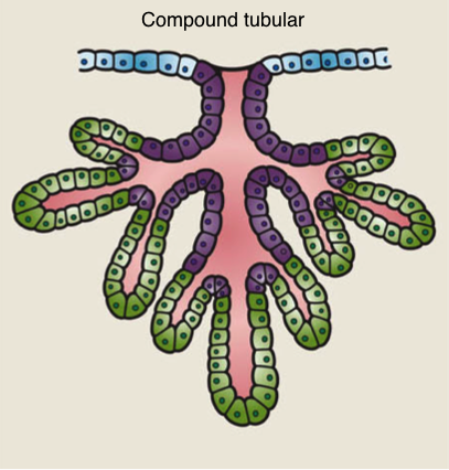 This image shows the structure of a compound tubular gland